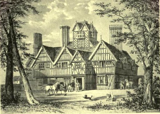 Oak House, West Bromwich, Staffordshire, England